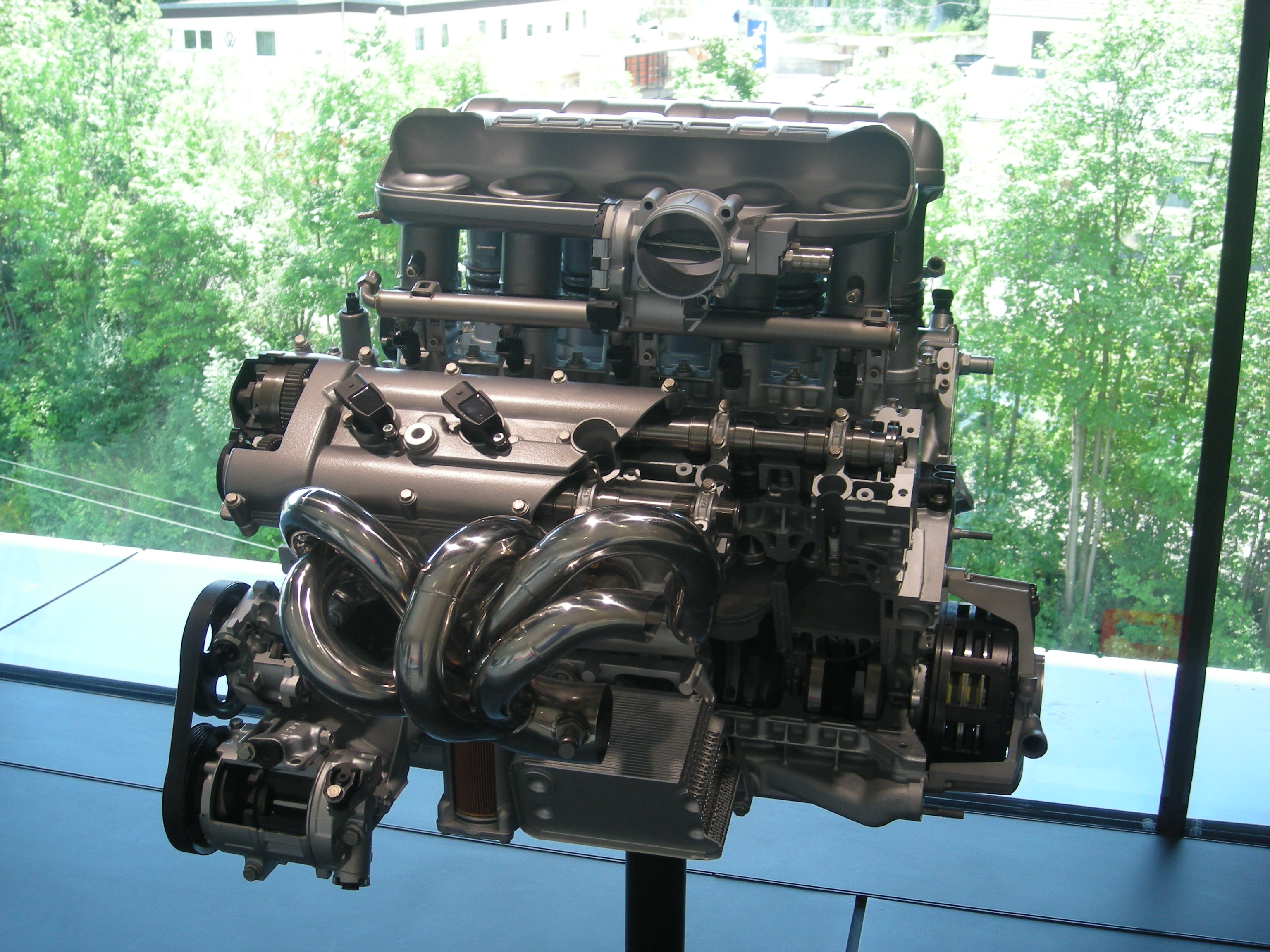 A 2002 Porsche Motor Carrera GT cutaway inside the Porsche Museum in Stuttgart, Baden-Württemberg (Germany).